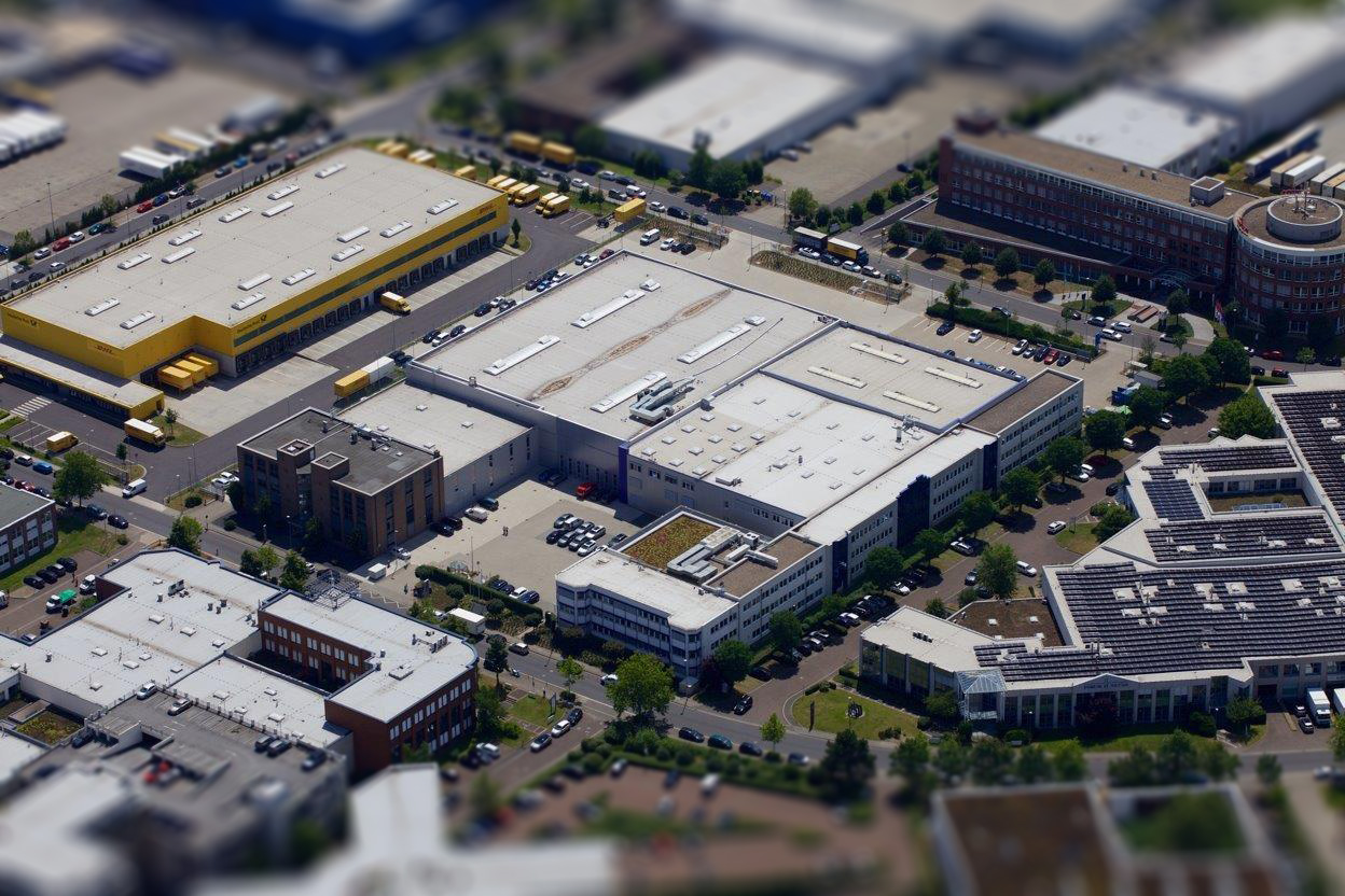 Aerial photo of BEKO Technologies Headquarter Germany